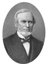 Philo M Everrett, president of Jackson Mine near Negaunee, MI